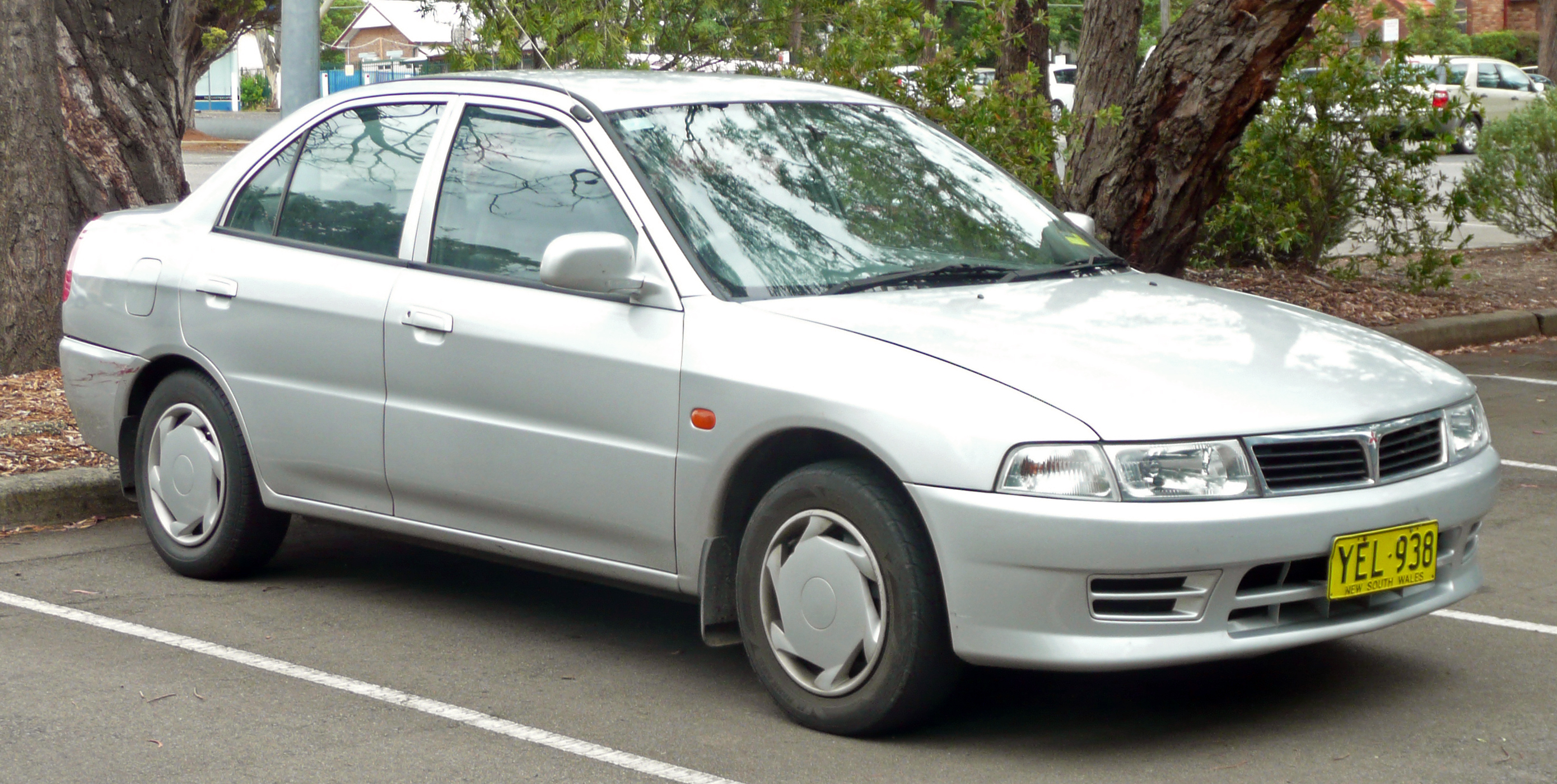 2001–2003 Mitsubishi Lancer (CE2 MY02.5) GLXi sedan. Photographed in Sutherland, New South Wales, Australia.